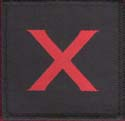 10 Para Battalion (V) parachute Regiment DZ Flash